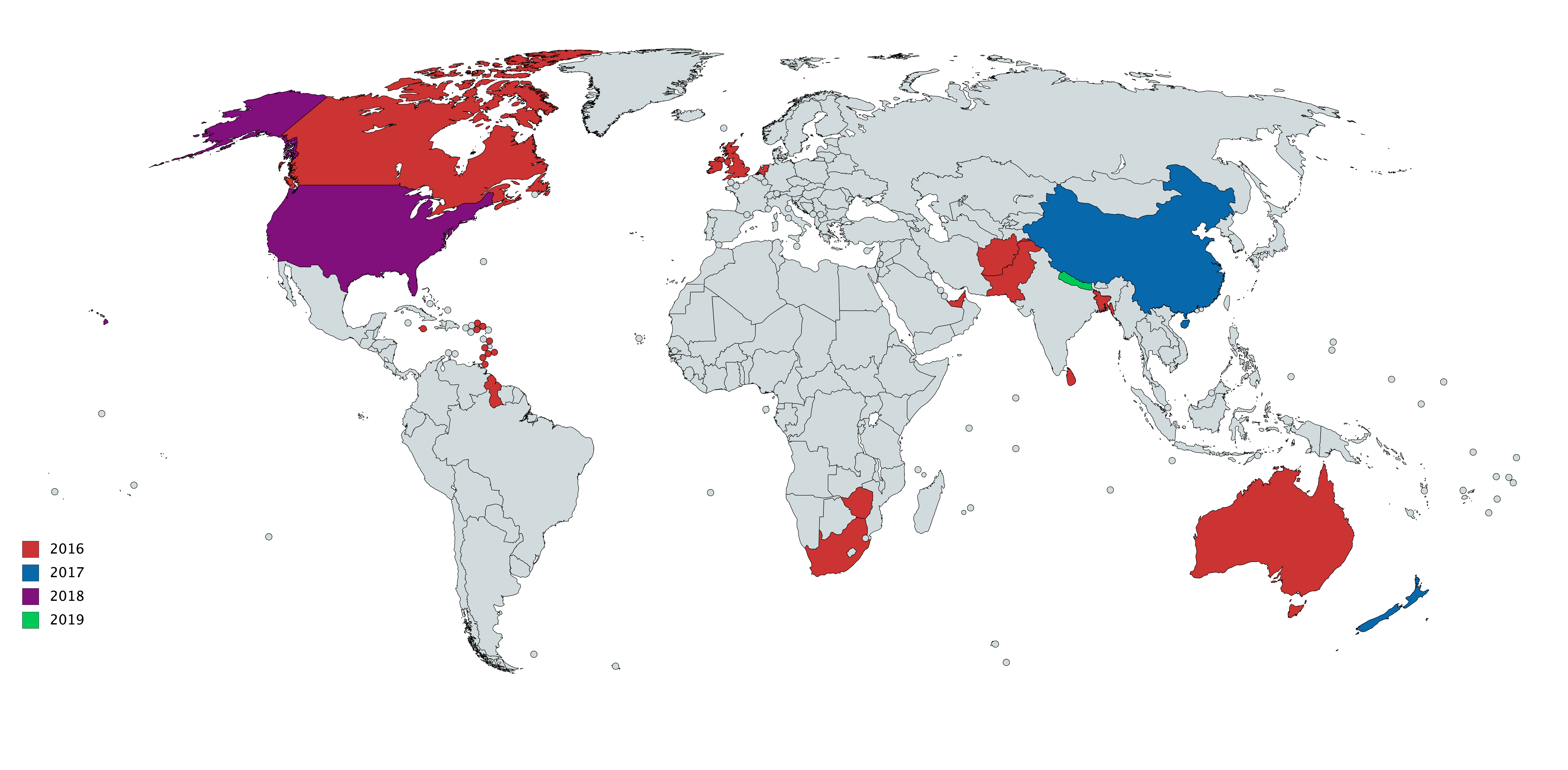 Map showing player's countries of origin